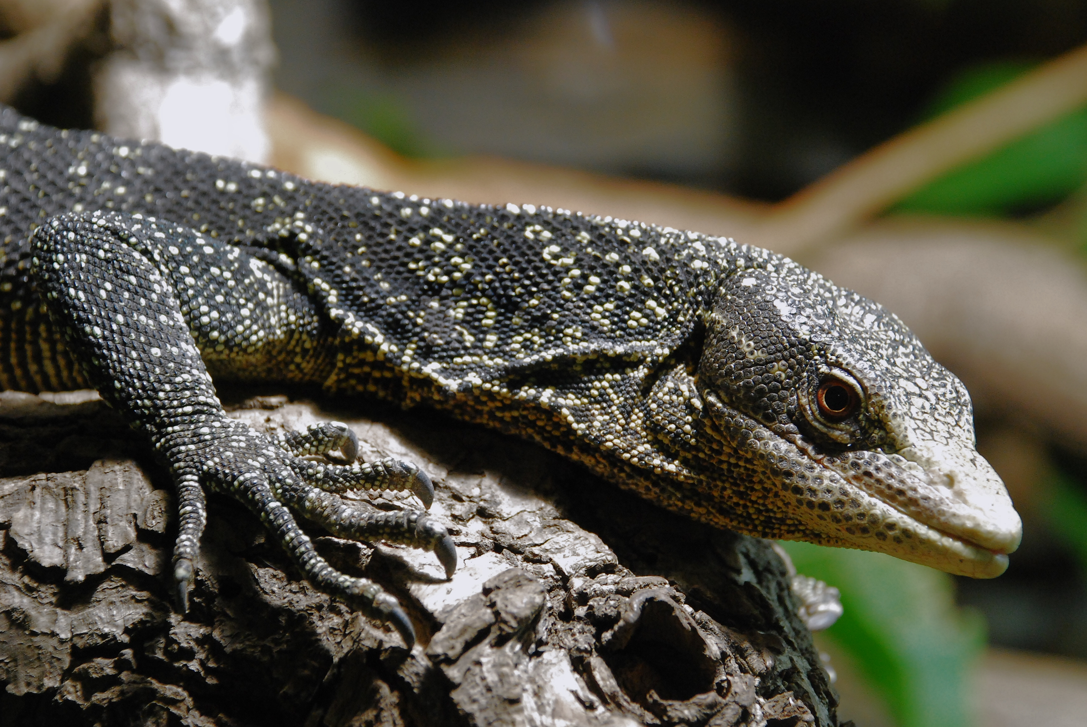 A Golden-spotted Tree Monitor, photographed in a vivarium at the Museum König in Bonn